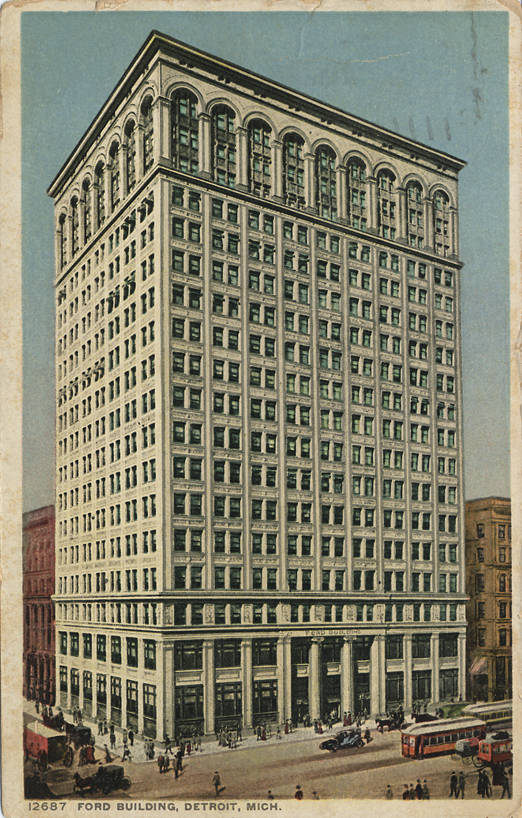 Ford Building, Detroit, Mich., Architects D.H. Burnham and Co.